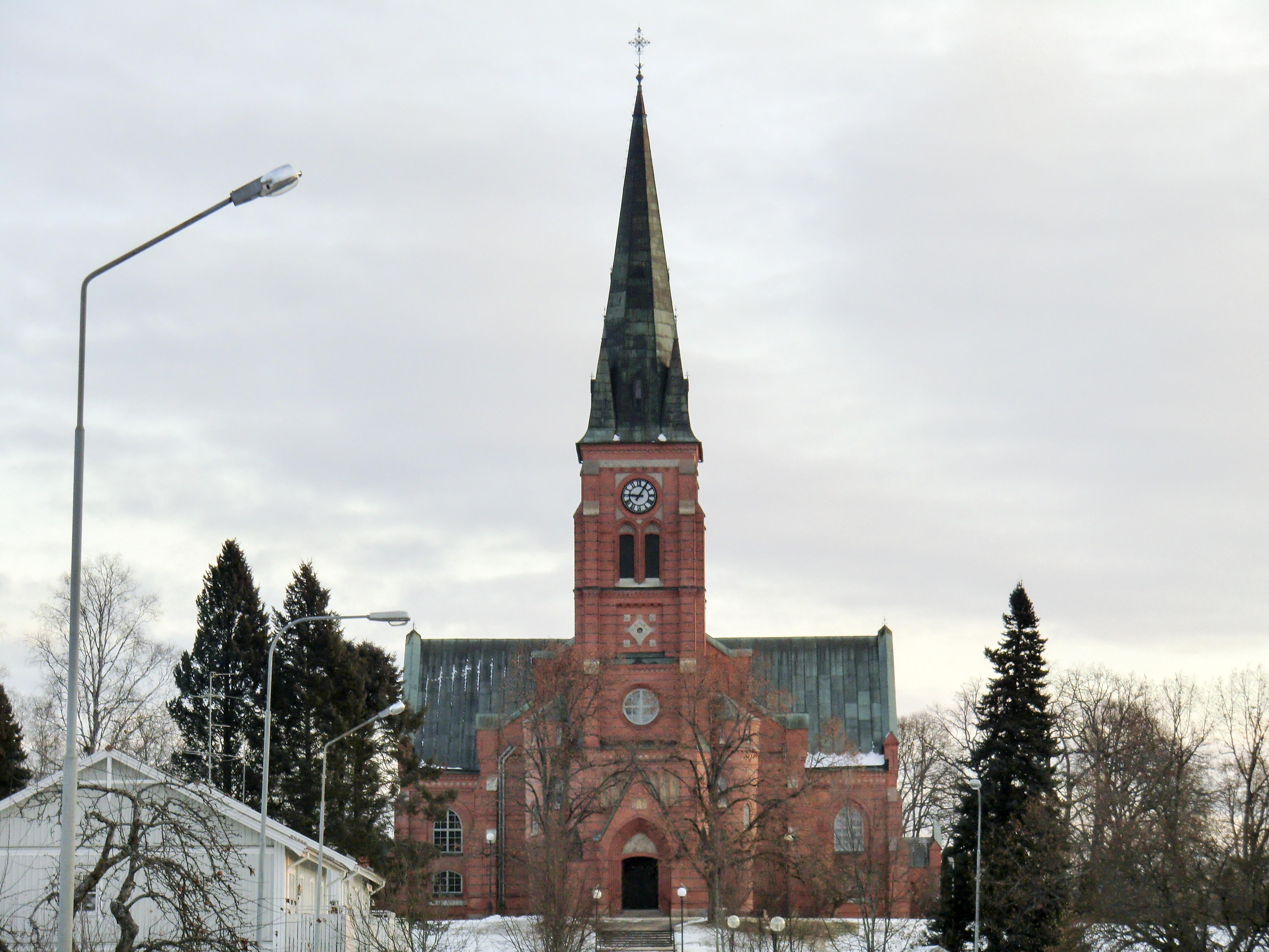 Fryksände church in Torsby, Värmland, Sweden.